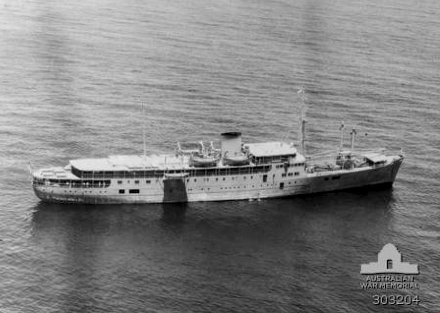 1941-12-24. Aerial starboard side view of the Filipino passenger motor vessel Don Isidro. She was beached in flames after being attacked by Japanese aircraft en route to bomb Darwin on 1942-02-19. Her survivors were picked up by HMAS Warrnambool.